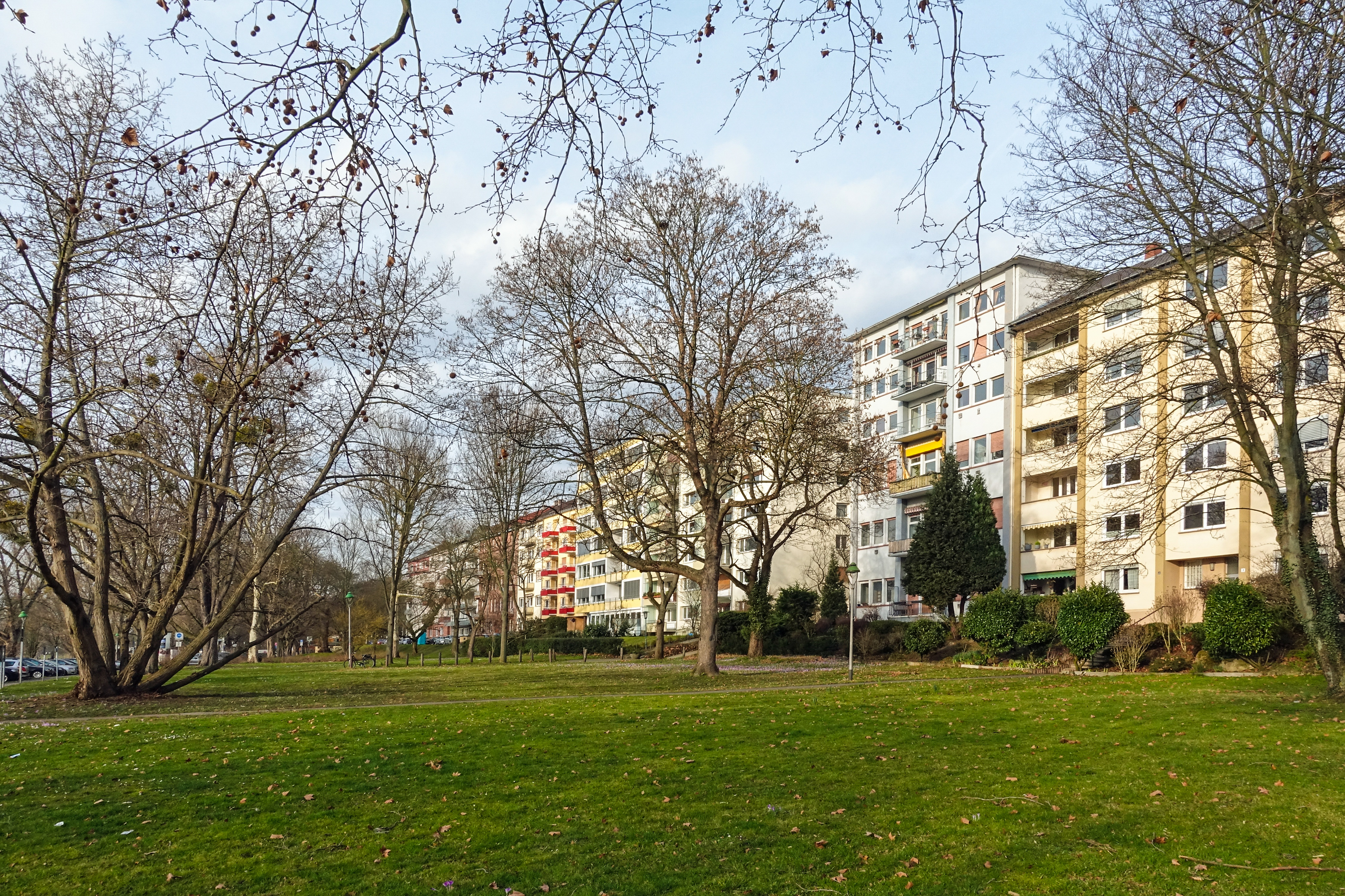 Mannheim-Lindenhof, Stephanie banks, historical place of Eichelsheim Castle